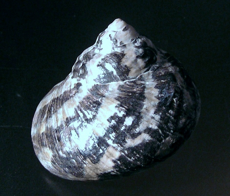 Cittarium pica (Linnaeus, 1758), a top shell from the family Turbinidae; Bahamas